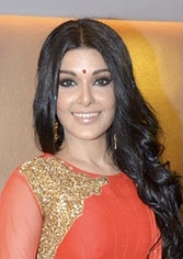 Koena Mitra in 2015